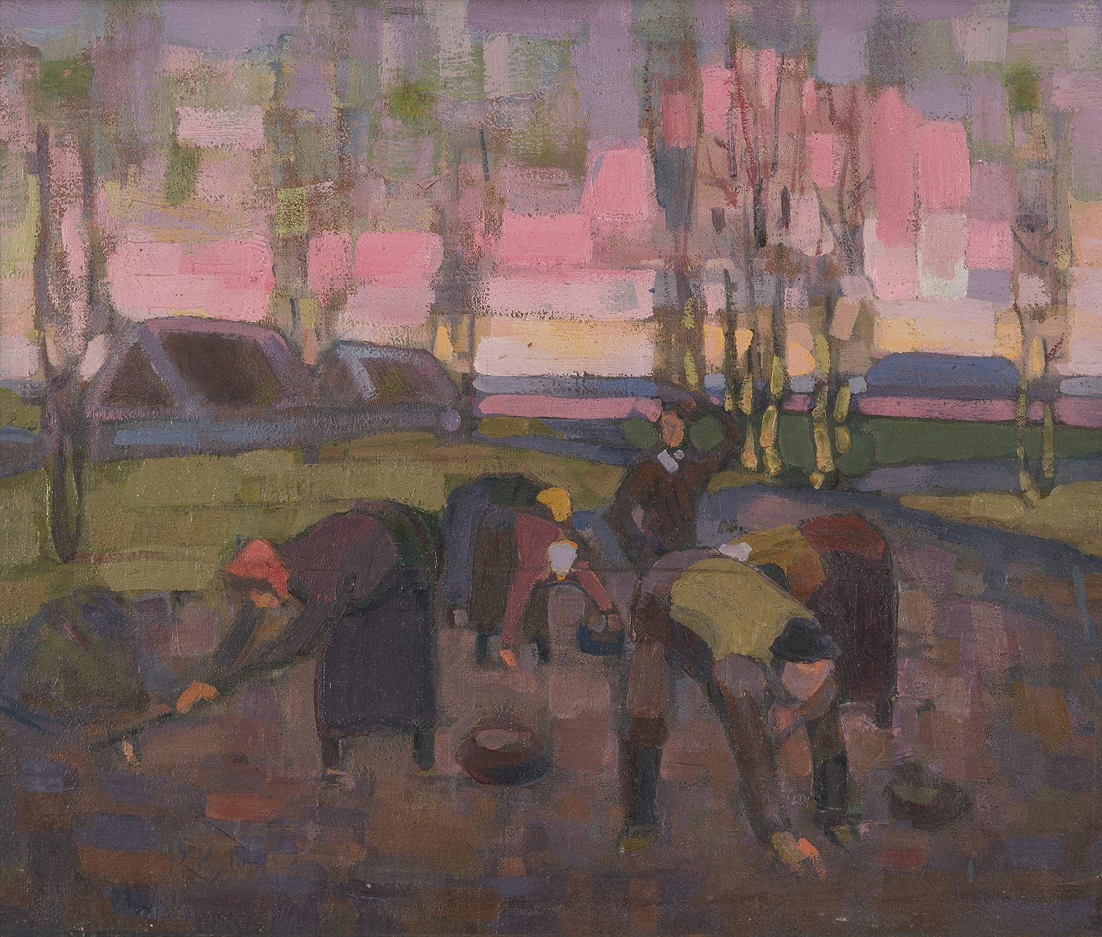 Kuno Veeber. Potato Harvest. 1918. Oli on canvas. EKM j 204:6 M 1041.